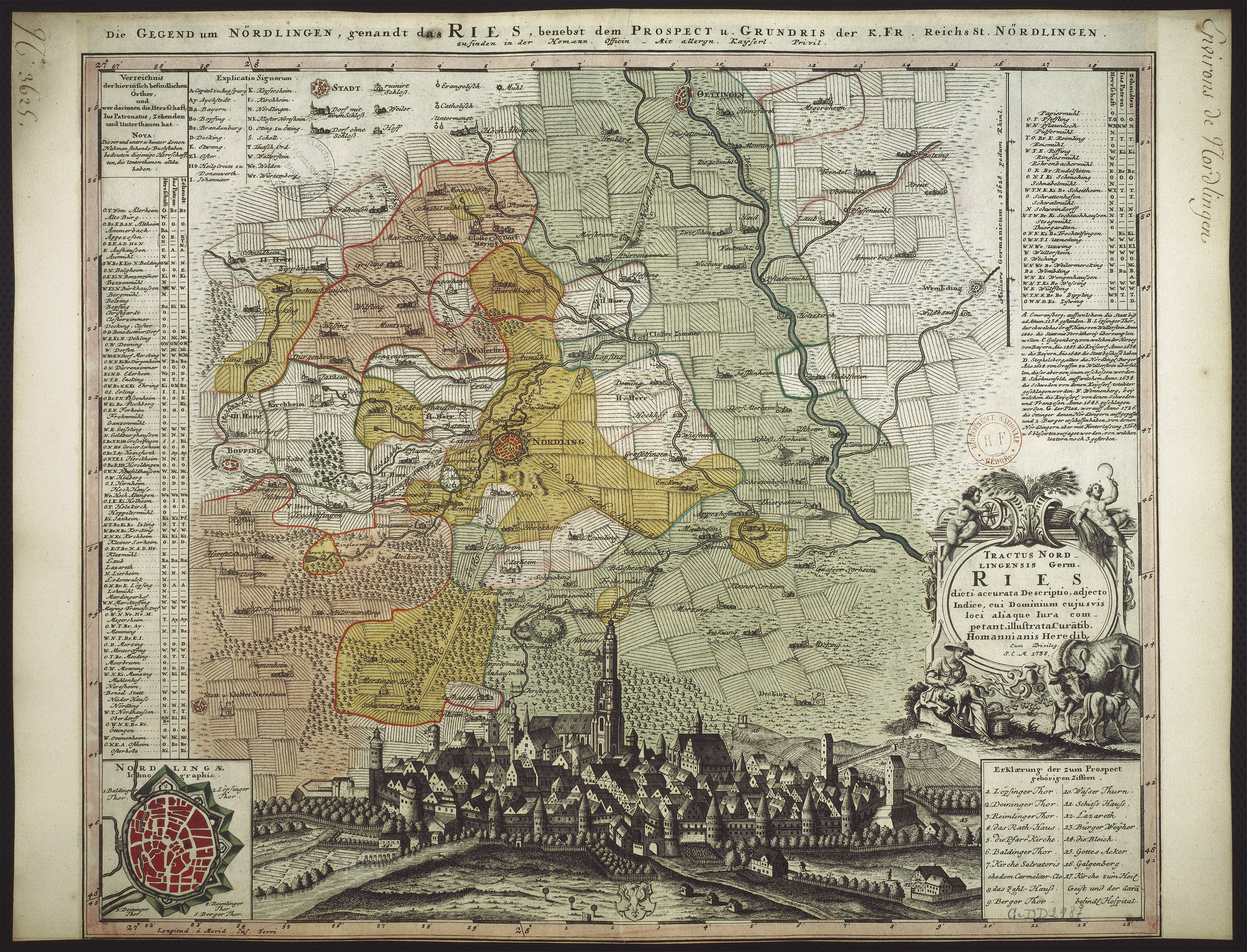 Area around the city Nördlingen named "Ries"